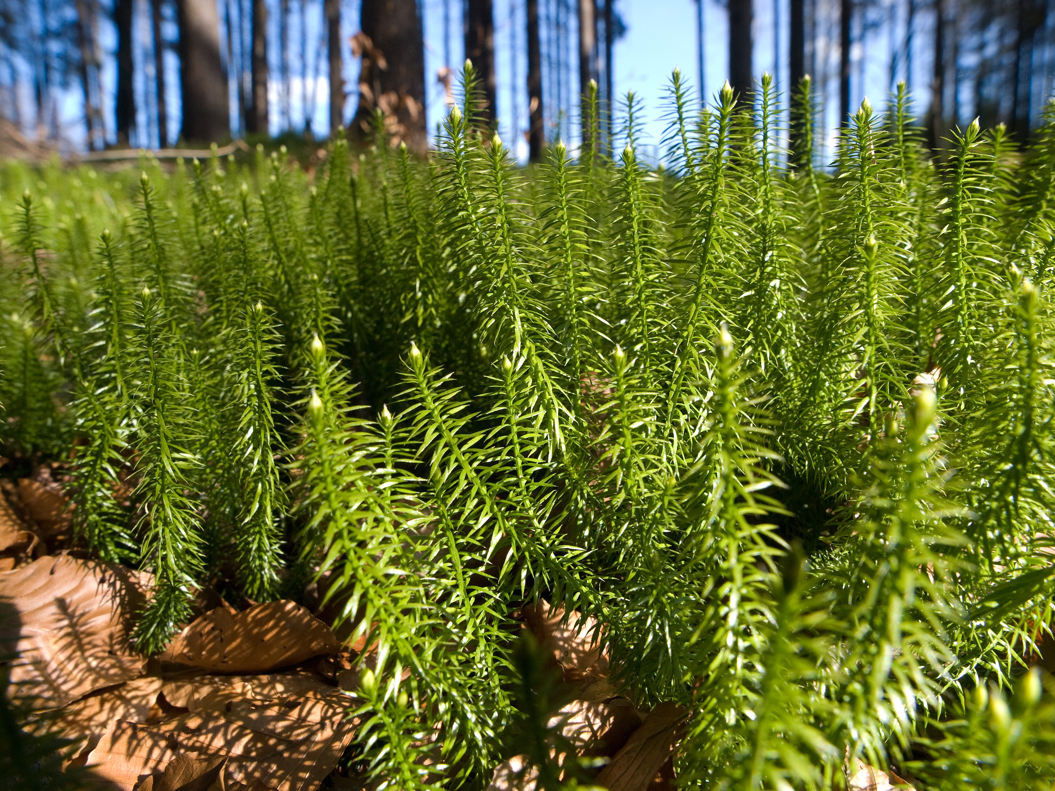 Lycopodium annotinum in a wood in Bavaria, Germany.